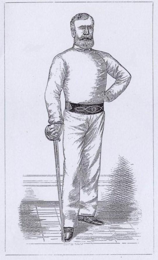 The portrait of Victorian fencing master, John M Waite (c.1820-1884).